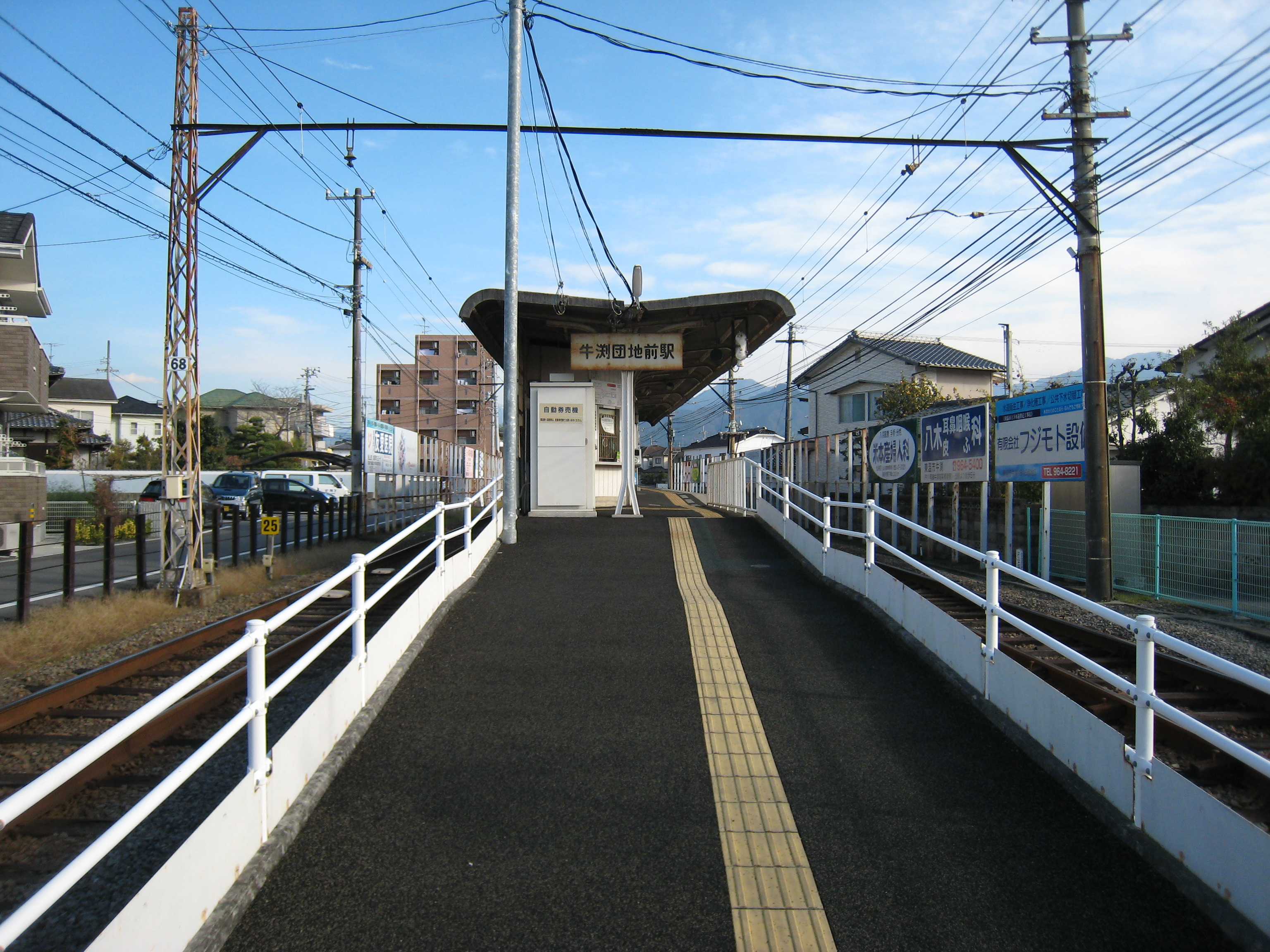 Iyo Railway [Sta.Ushibuchidanchimae]